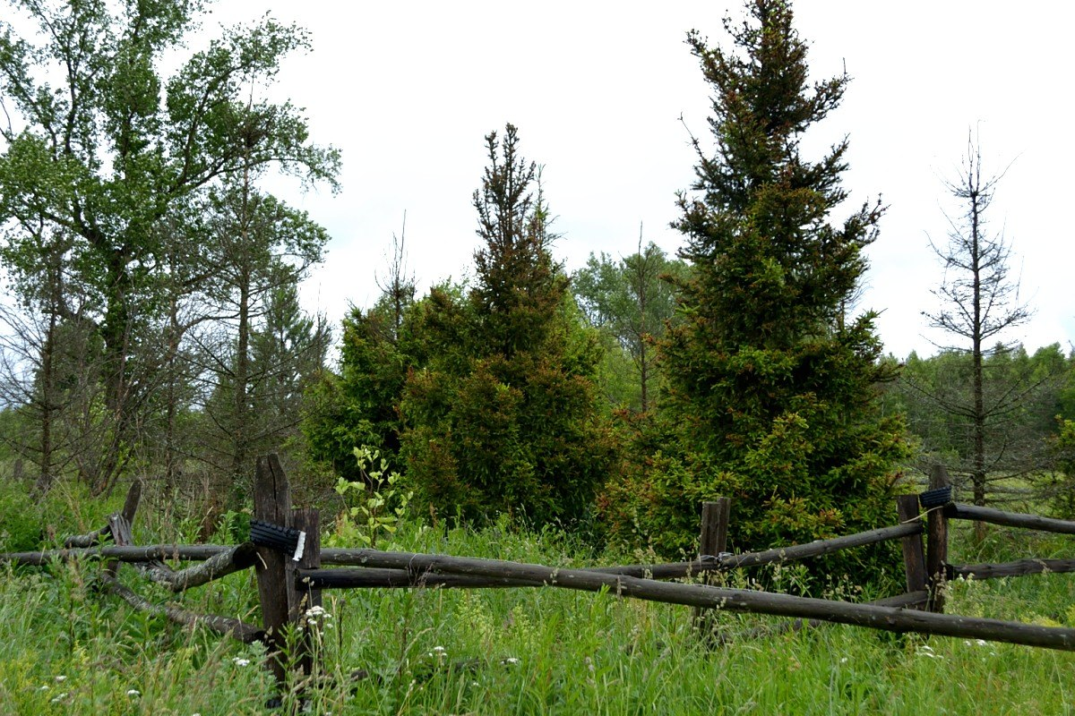 Fenced trees in the center of the village